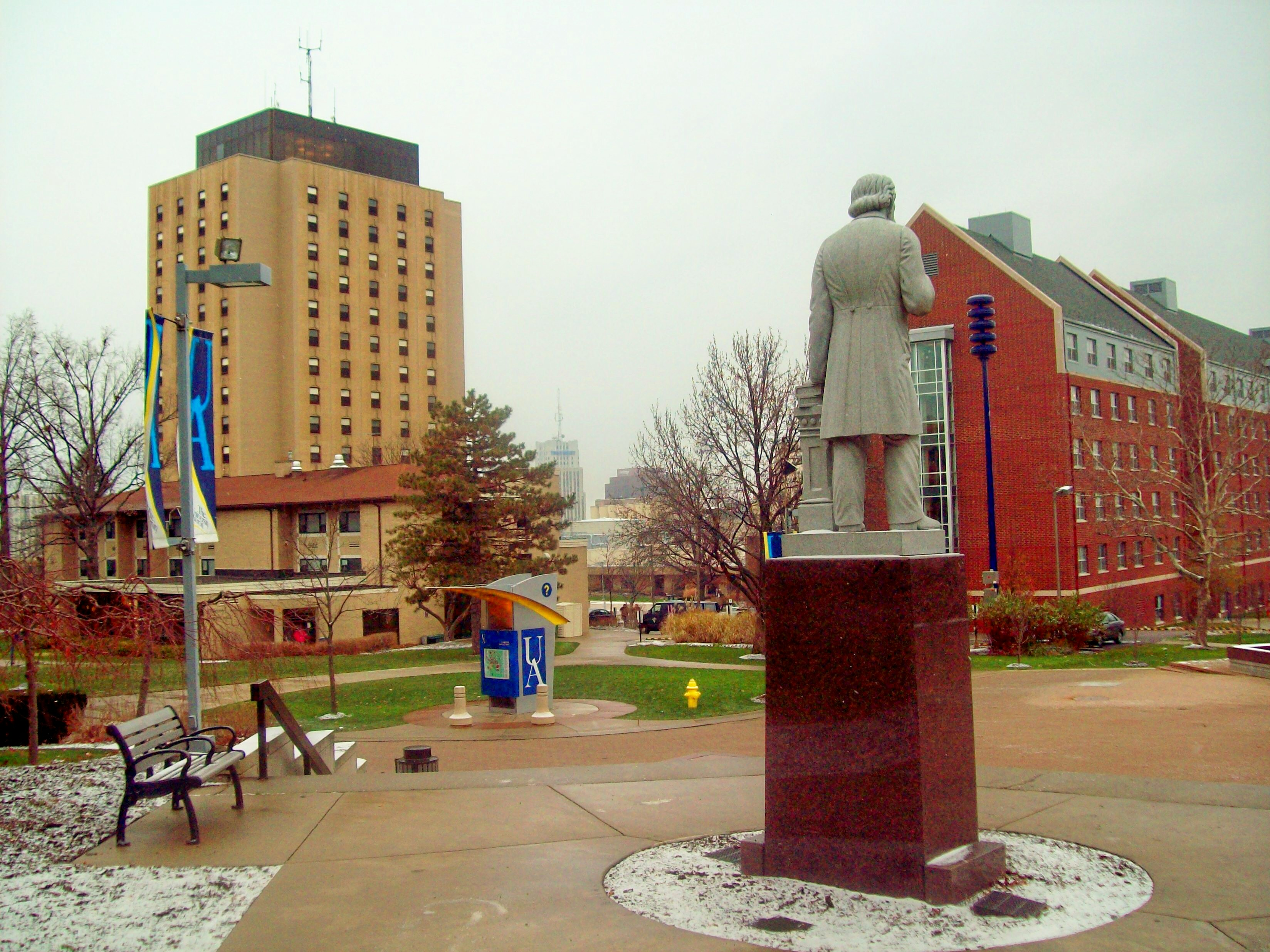 Akron University